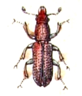 Prostomis mandibularis, from Calwer's Käferbuch, Table 15, Picture 5. Taxonomy was updated to 2008, using mostly the sites Fauna Europaea and BioLib. Please contact Sarefo if the determination is wrong!